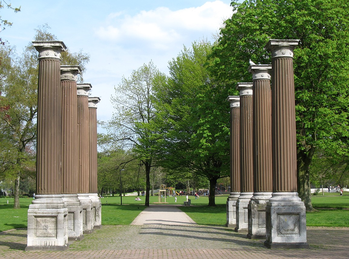 Entry to Kennedy park in the Ostviertel of Aachen, Germany